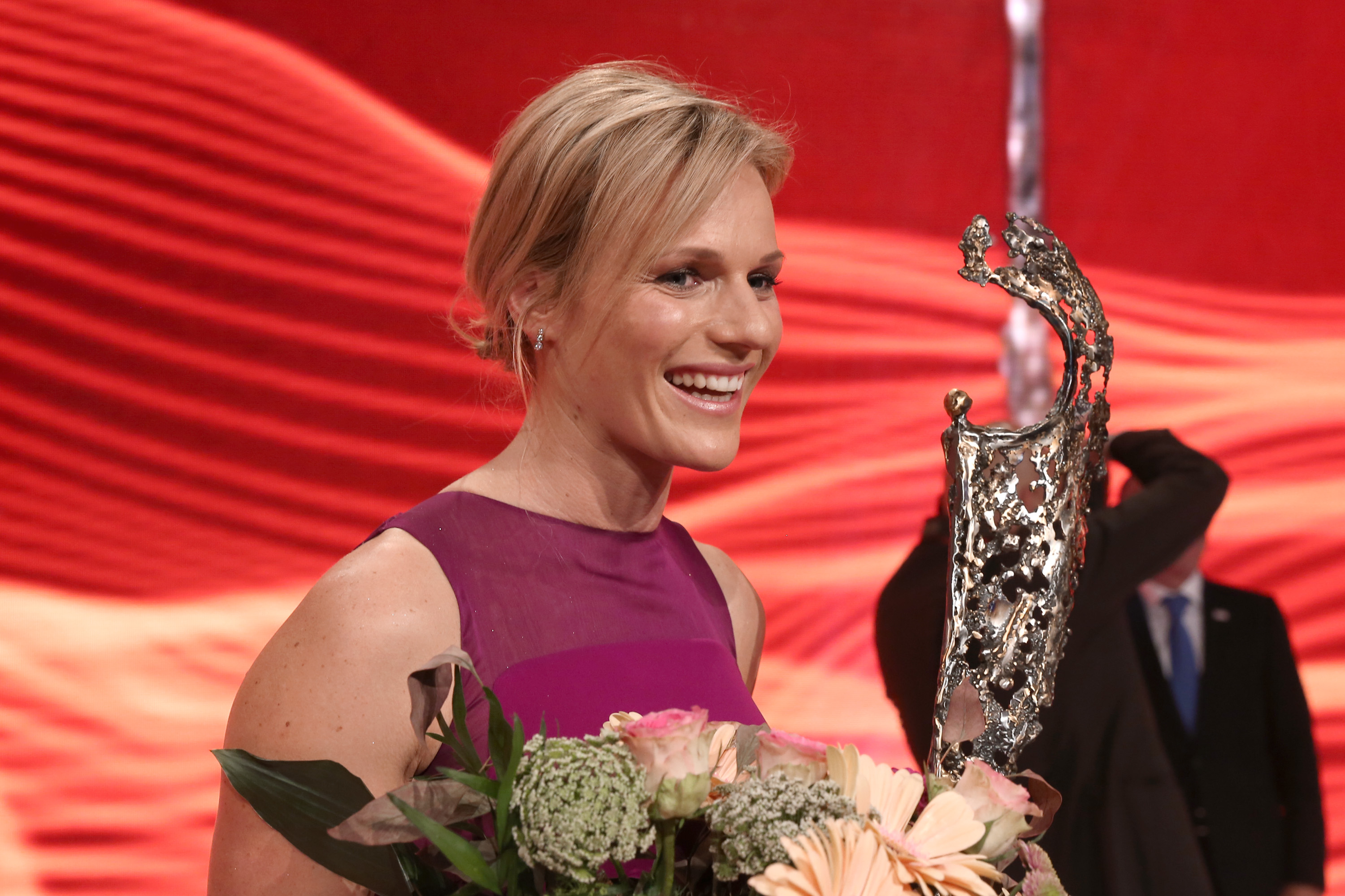 Marlies Schild - Austrian Sportspersonalities of the Year 2014 (Austria Center Vienna).